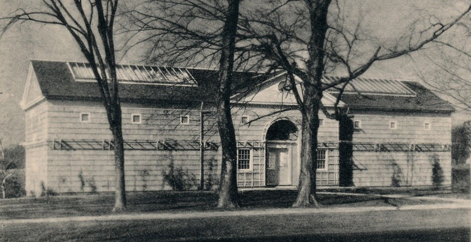 photograph of the Lyme Art Association in Old Lyme in 1922